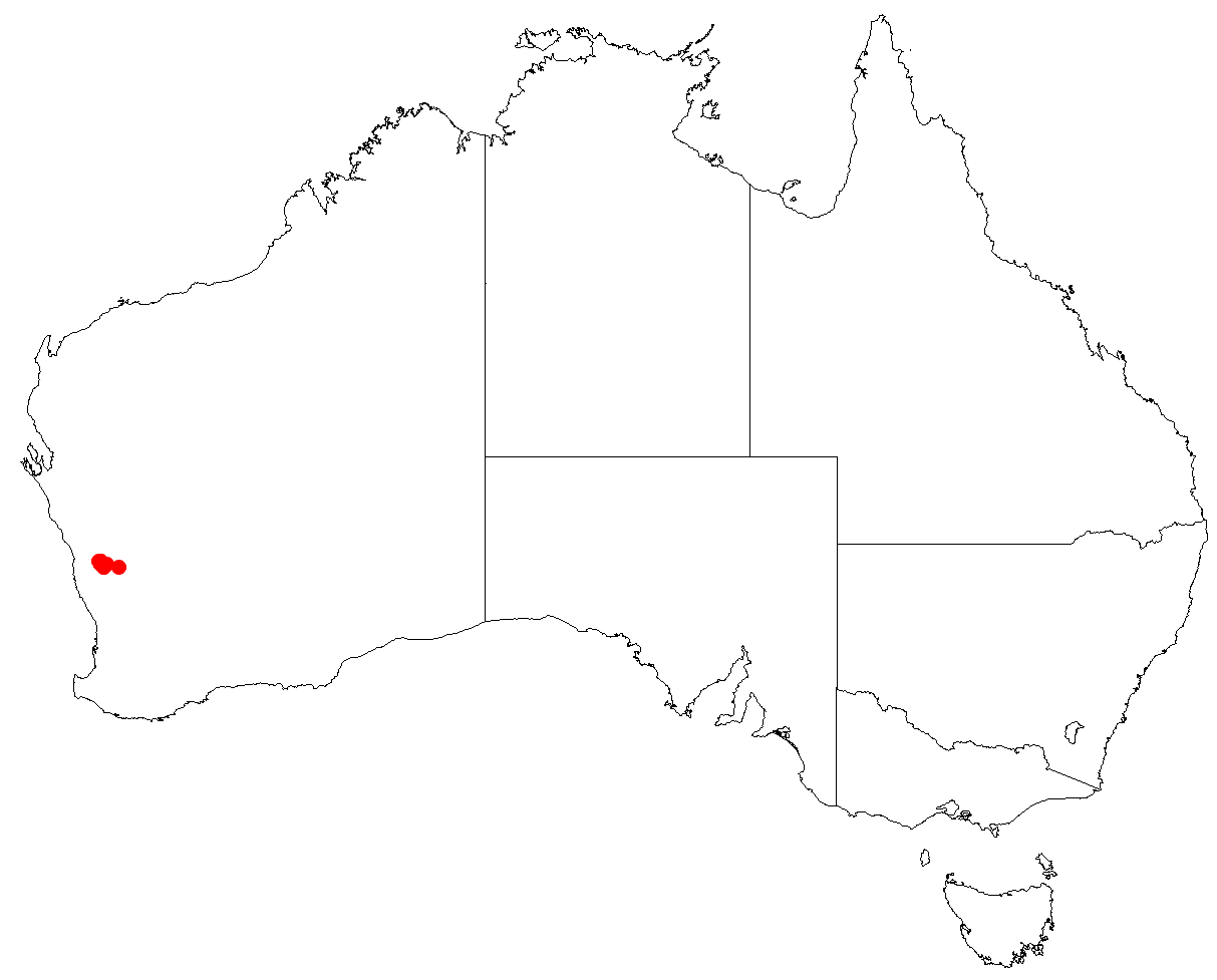 Darwinia polychroma collections data download 3 August 2018 from AVH